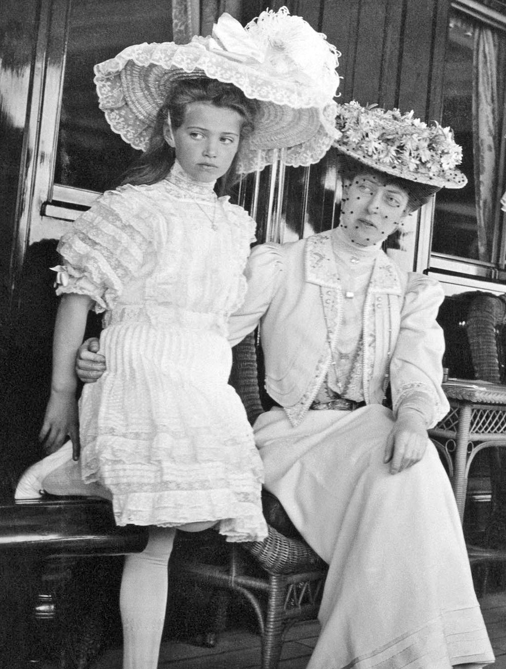 Grand Duchess Maria Nikolaevna of Russia with Princess Victoria of the United Kingdom aboard the Imperial yacht Standart, at Reval, Russia (now Tallinn, Estonia)